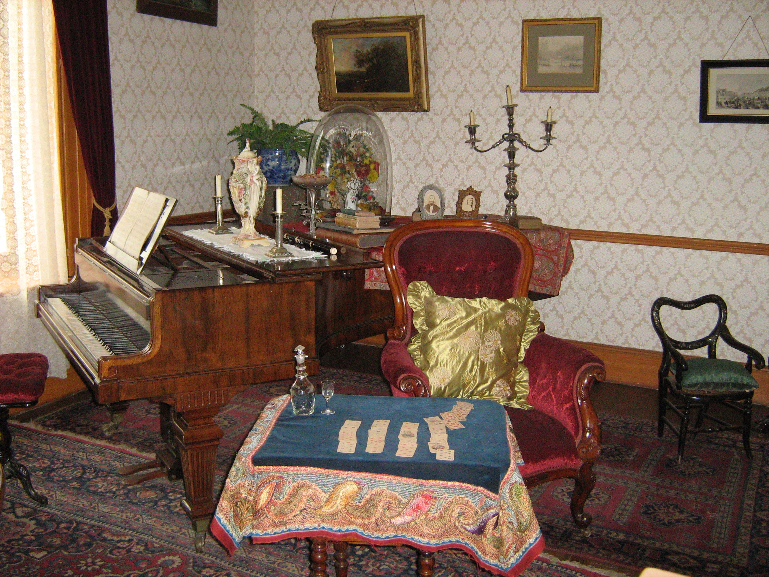 O.M. Bergh House interior, Stellenbosch Museum, South Africa This media shows a South African Protected Site with SAHRA file reference 9/2/084/0106.